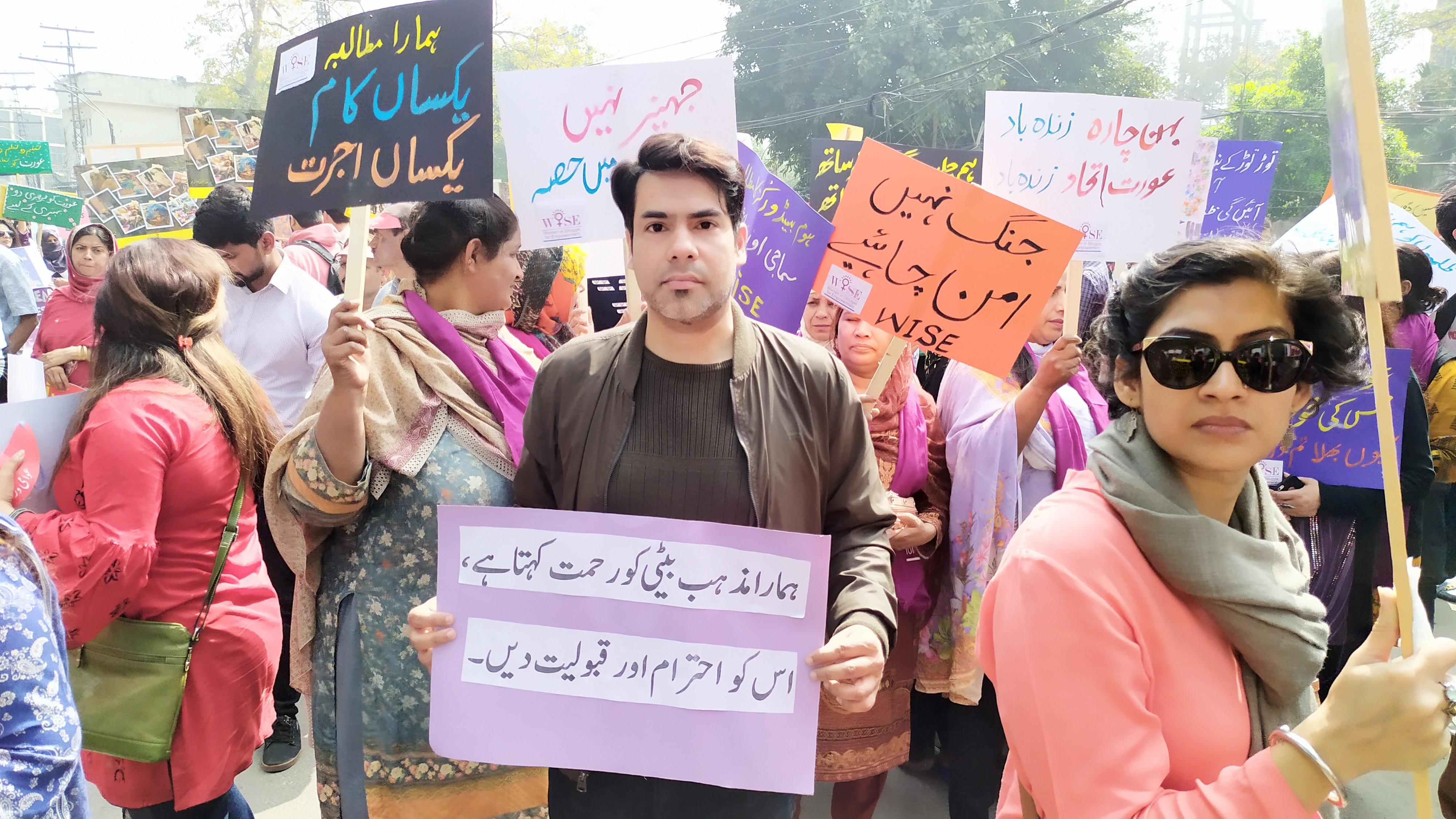 Men also present in support of the Aurat March 2020